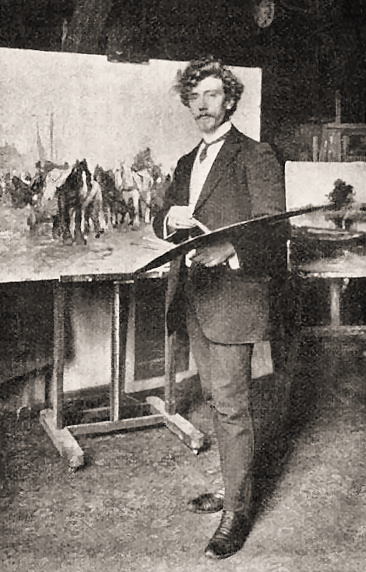 August Willem van Voorden in zijn atelier